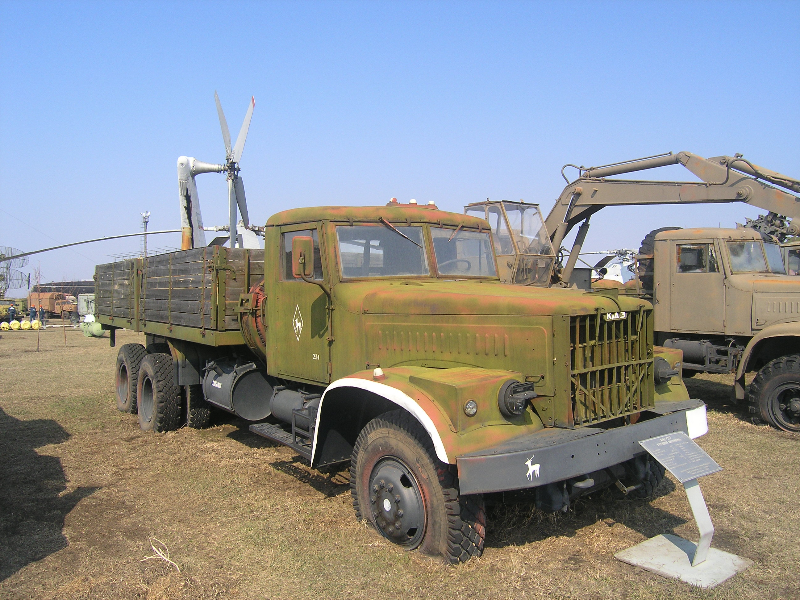 KrAZ-257 B1 in Technical museum Togliatti